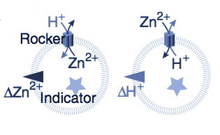 Antiport de H+ i Zn2+ de l'interior cap a l'exterior, i a l'inrevés